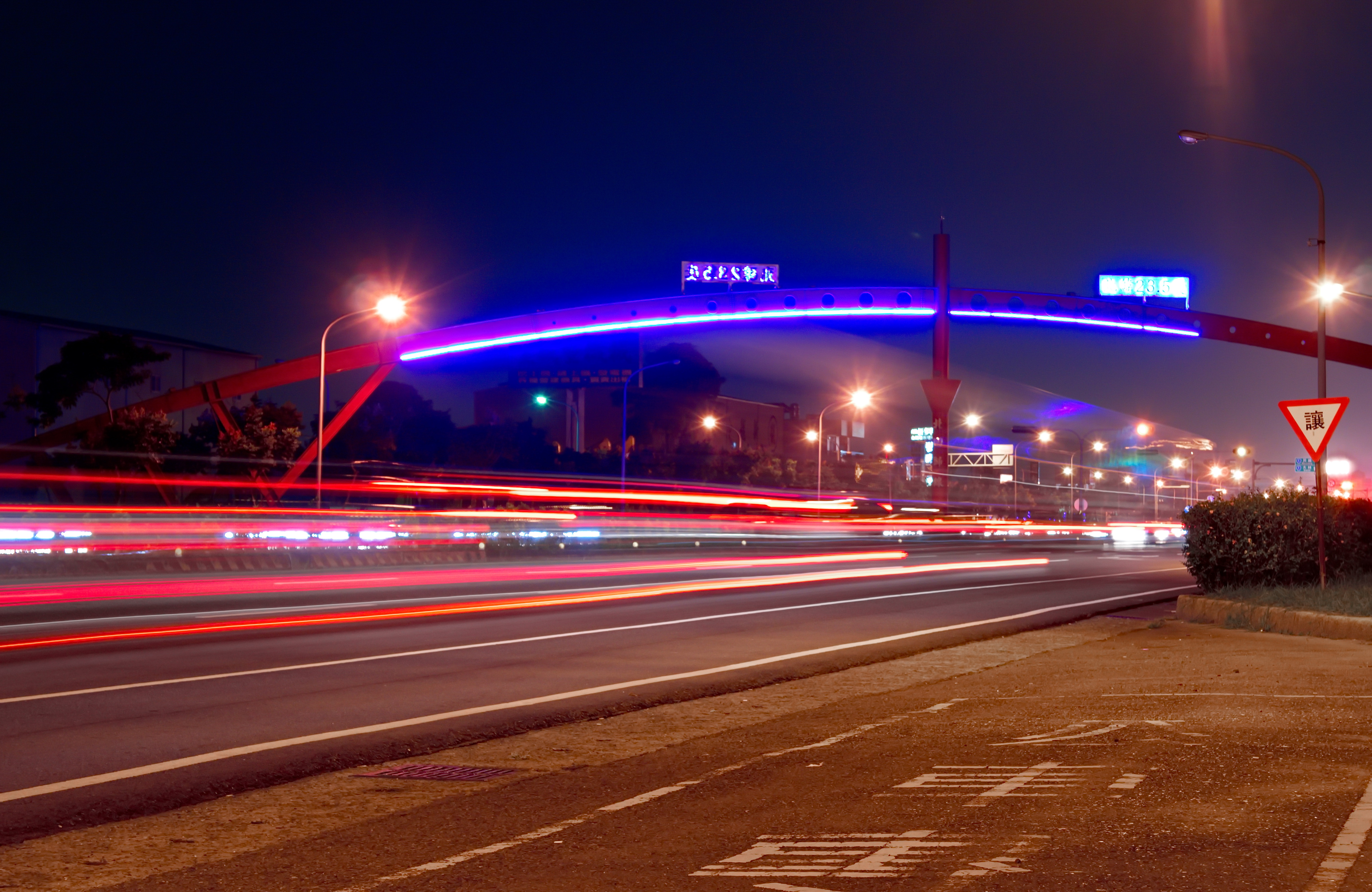 Provincial Highway 1 near Shueishang Tropic of Cancer Park, Chiayi, Taiwan.